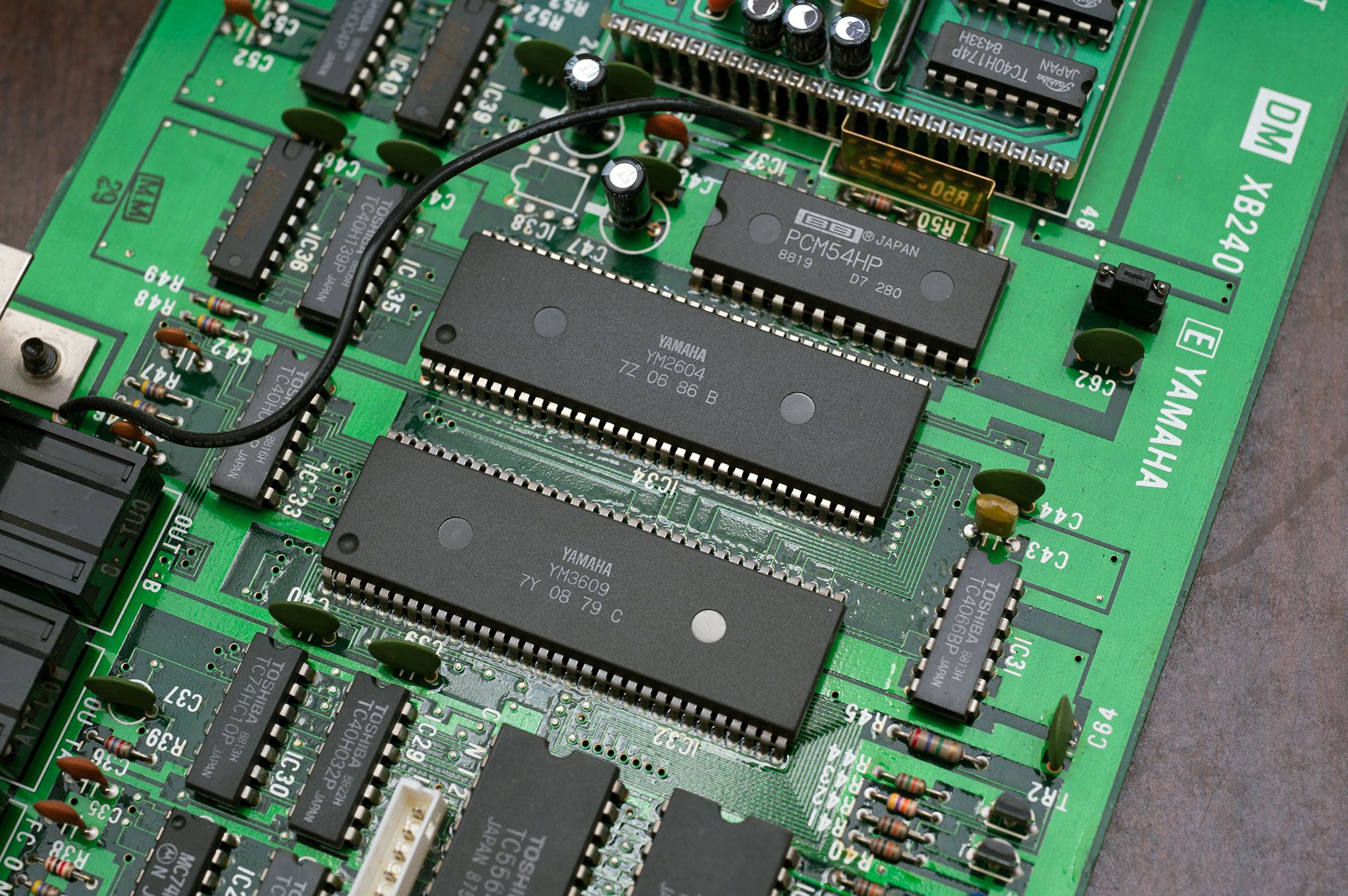 YAMAHA DX7IID Mainboard (part)